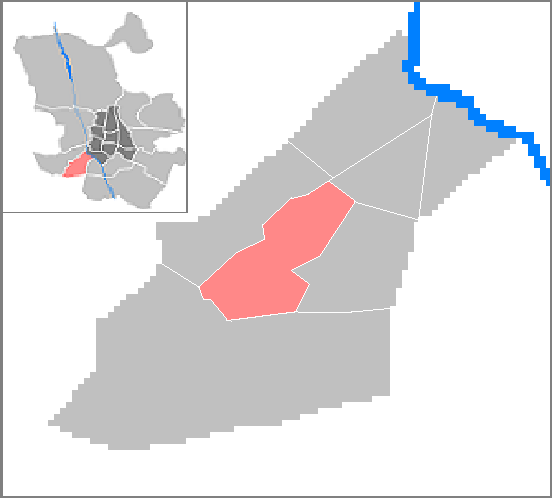 Puerta Bonita quarter in Madrid